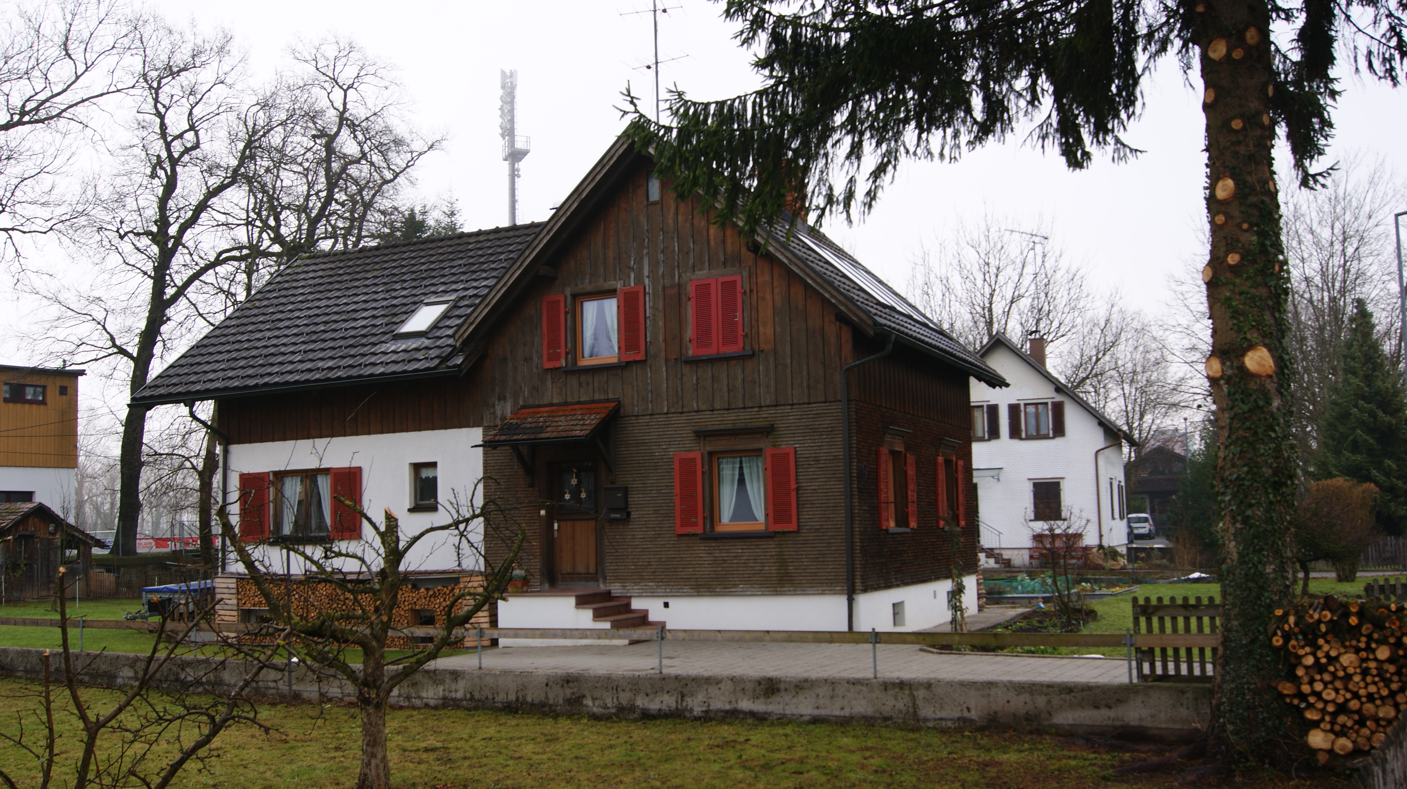 Housing estate / worker settlement Birkenwiese in Dornbirn, Vorarlberg, Austria. House no. 17.